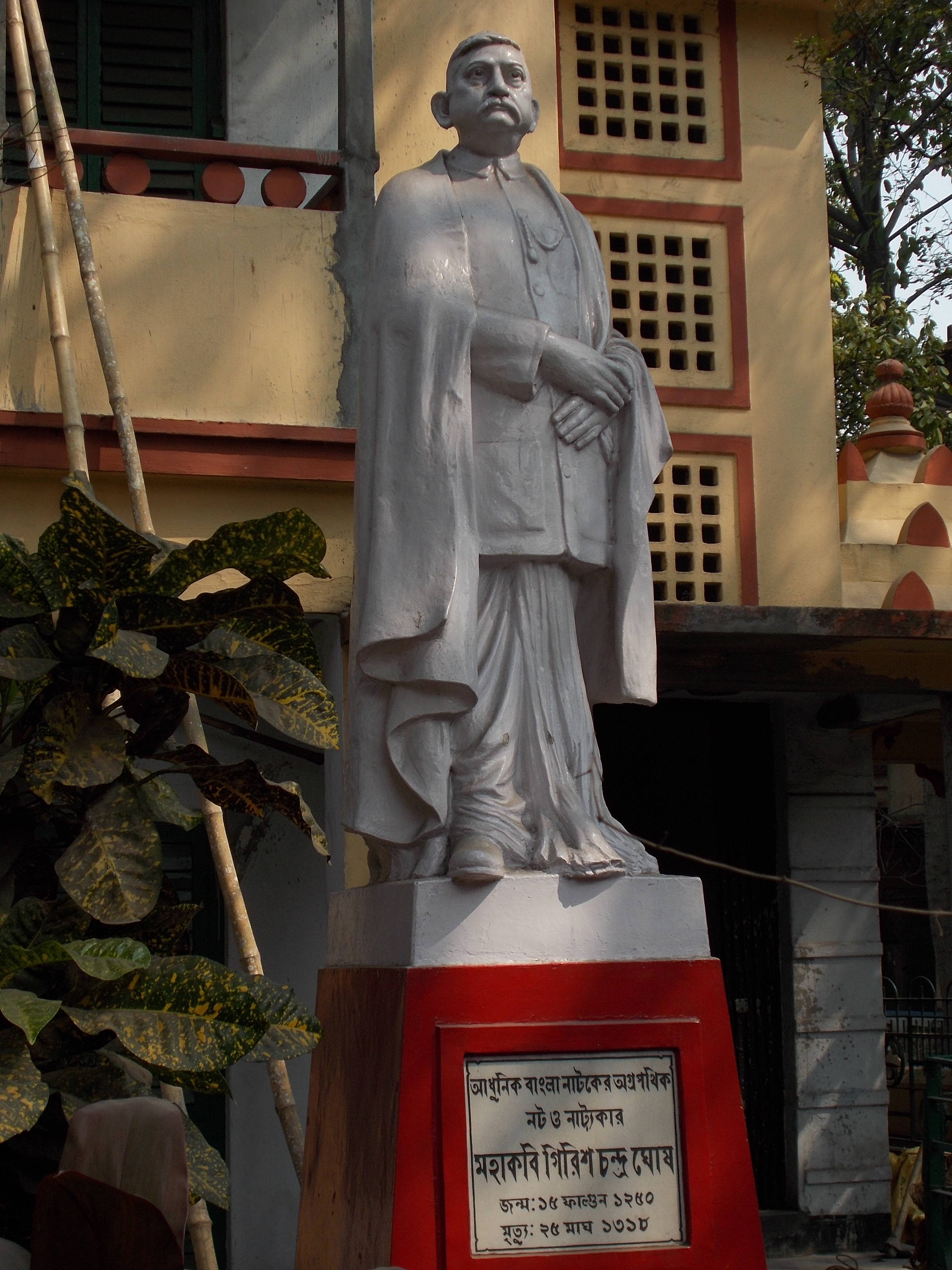 the statue in front of the house of Girish Ghosh